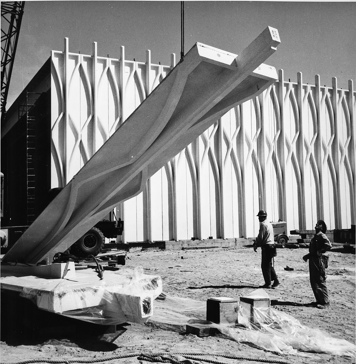 United States Pavilion for the Century 21 Exposition (later Pacific Science Center, Seattle Center, Seattle, Washington, USA) under construction, 1961. Item 77334, Miscellaneous Prints (Record Series 9910-01), Seattle Municipal Archives.